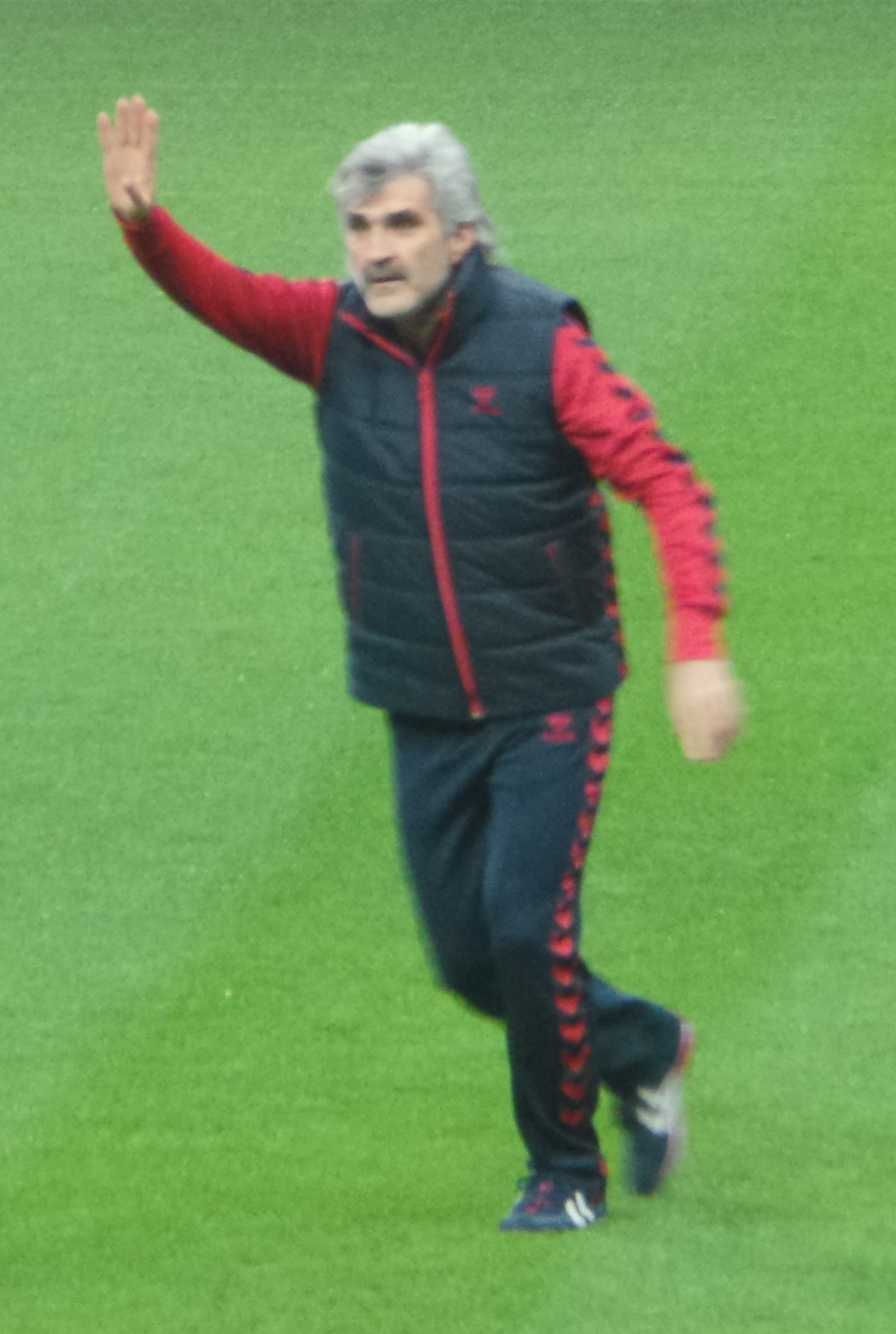 Uğur Tütüneker